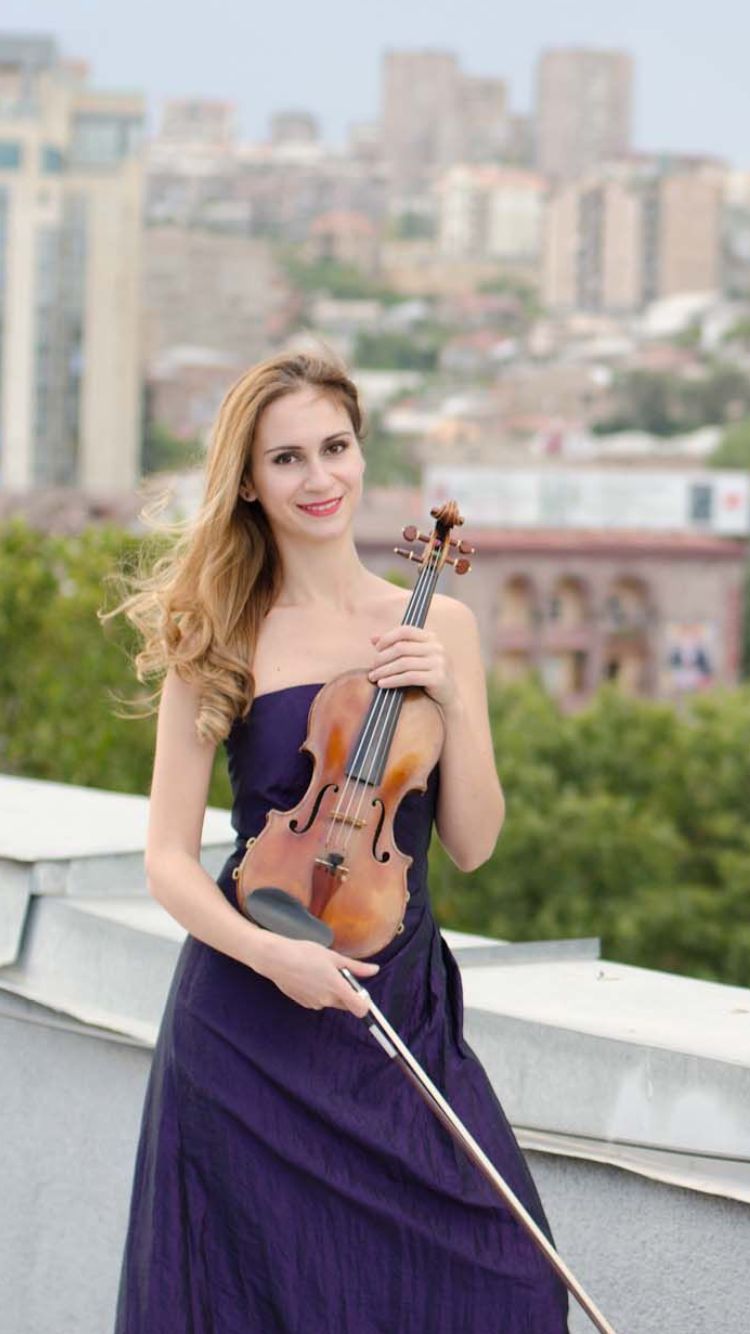 Anush Nikogosyan at the Opera House, Yerevan